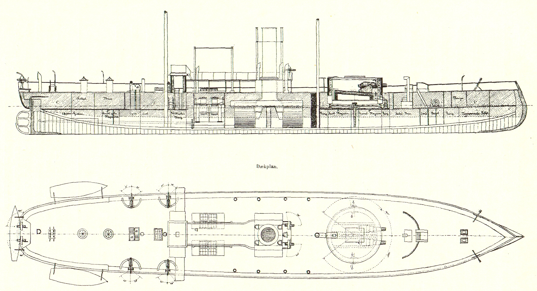 Plan of the Danish Ironclad Lindormen